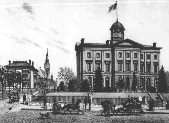 The Pioneer Post Office (known now as Pioneer Courthouse) in Portland, Oregon from The West Shore